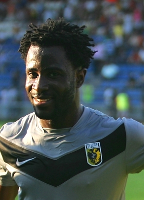 Wilfried Bony